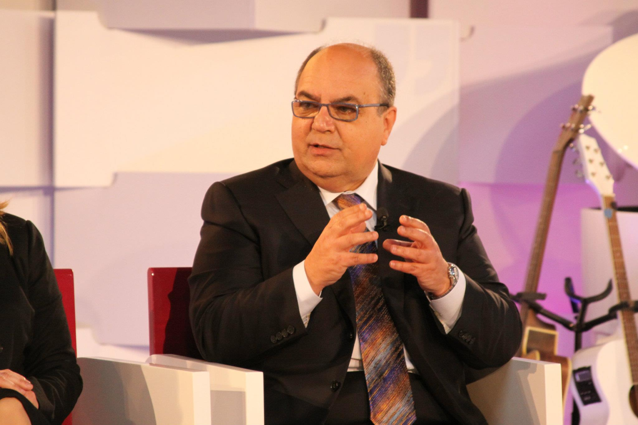 Emanuel Mallia